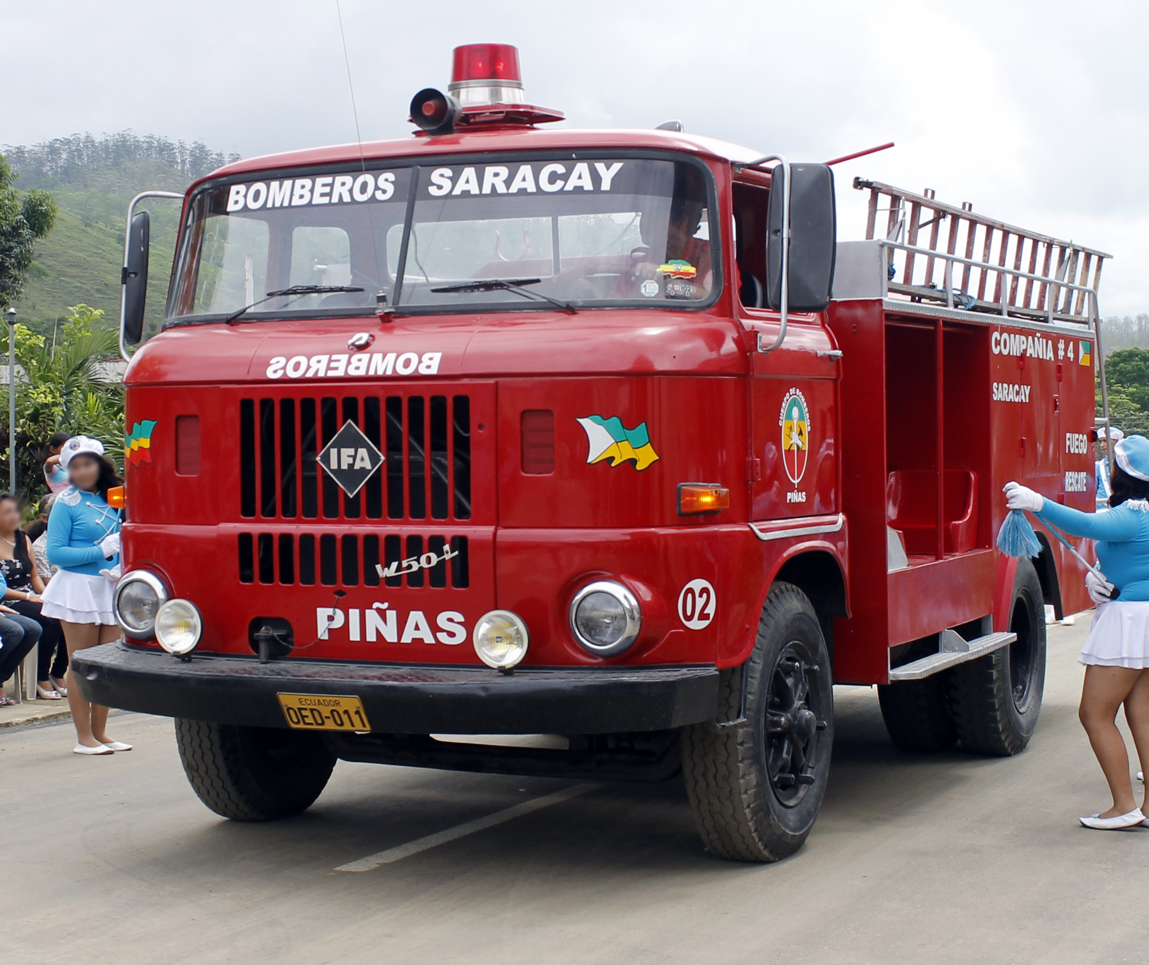 IFA W50L-based fire engine at a parade in Saracay, Cantón Piñas, Ecuador